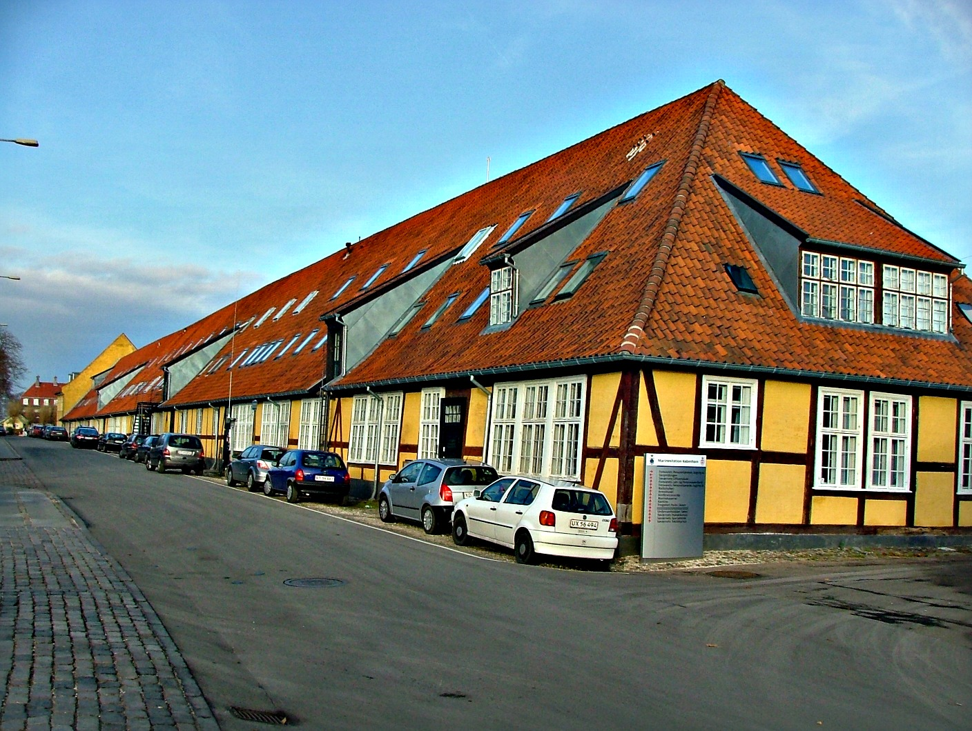 Photos from the former Naval Base Copenhagen: Old warehouses used for storing ships riggings Photo by Jan Kronsell, 2005